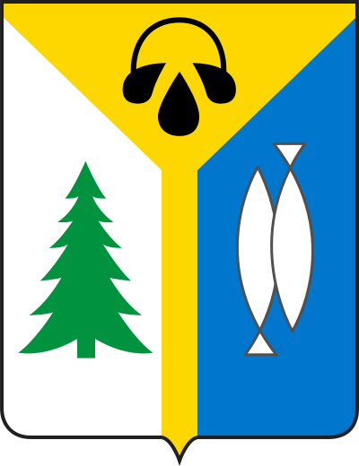 Nizhnevartovsk (Khanty-Mansia), coat of arms